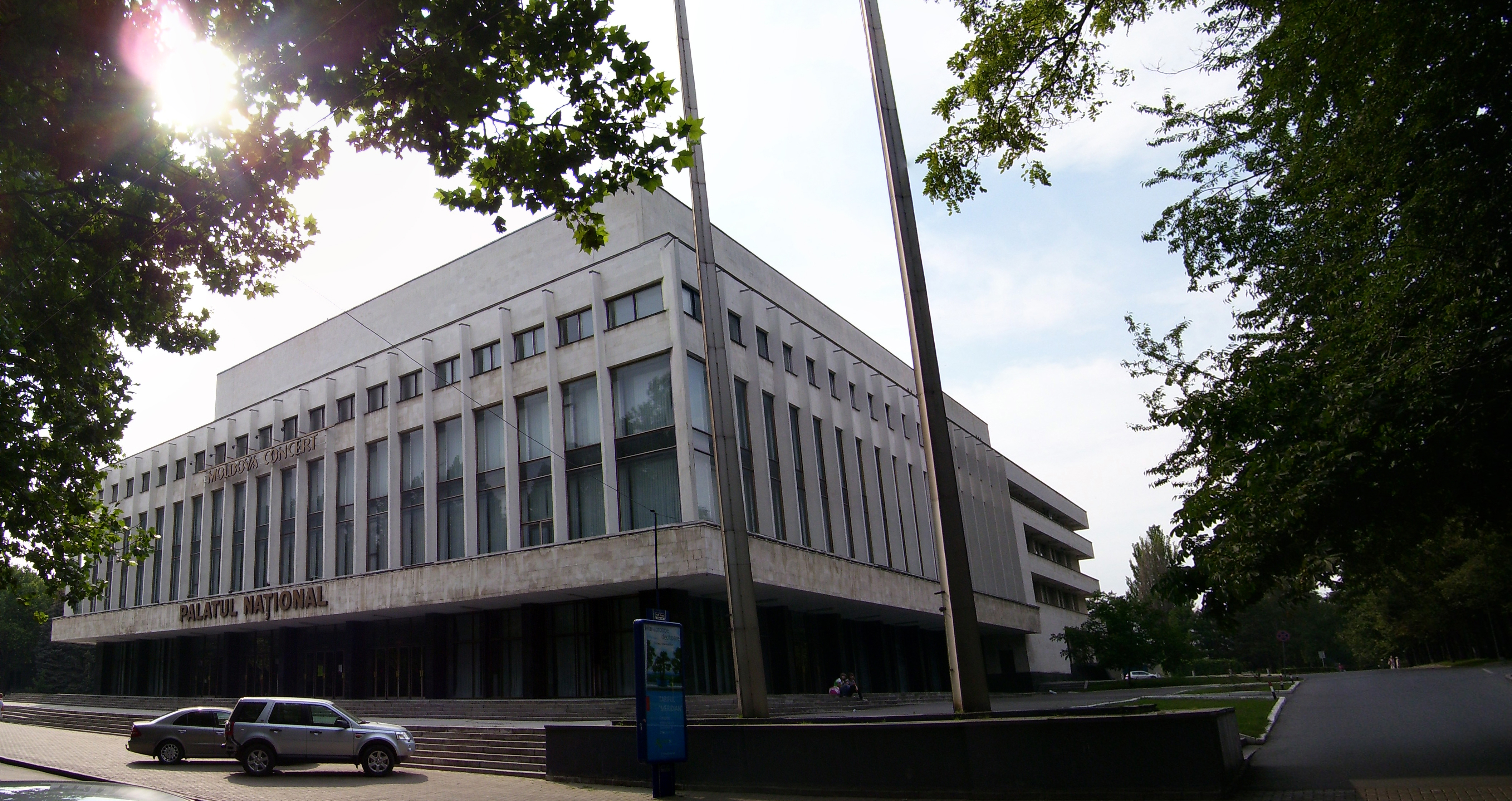 "National Palace" Concert Hall in the center of Chisinau